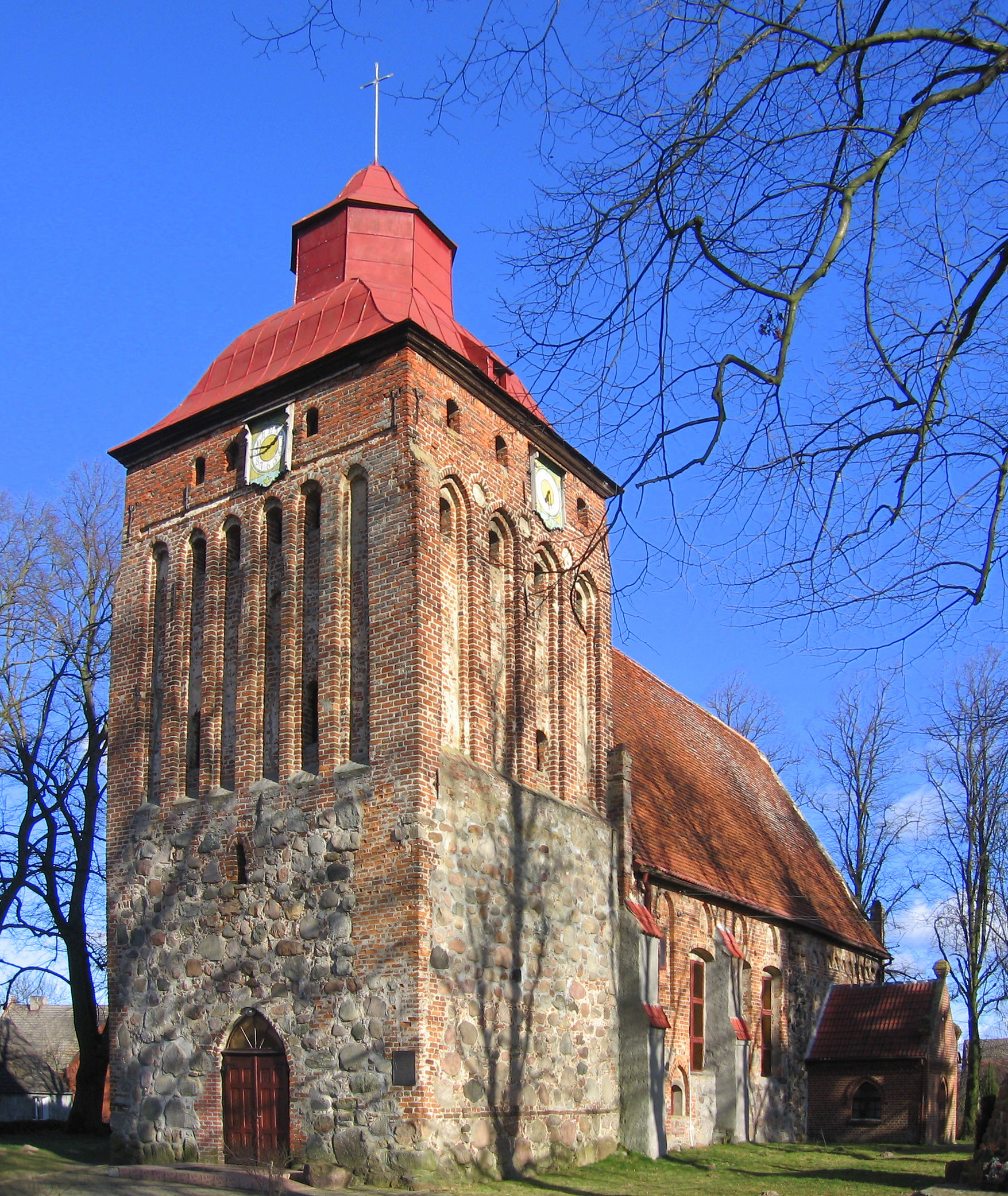 Christ the King Roman Catholic Church in Gosław, Poland